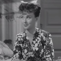 Margaret Lindsay in Scarlet Street - cropped screenshot